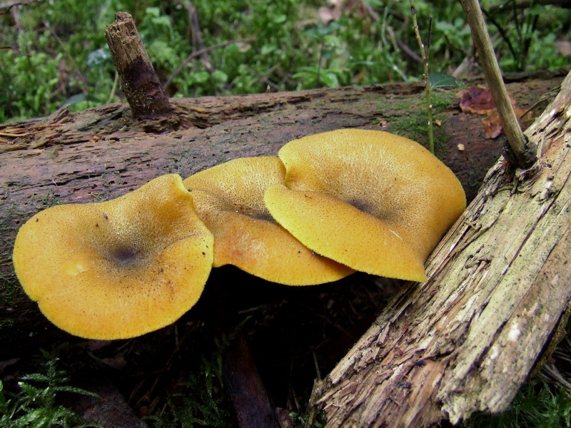 Tricholomopsis decora. Karmėlava forest, Lithuania.